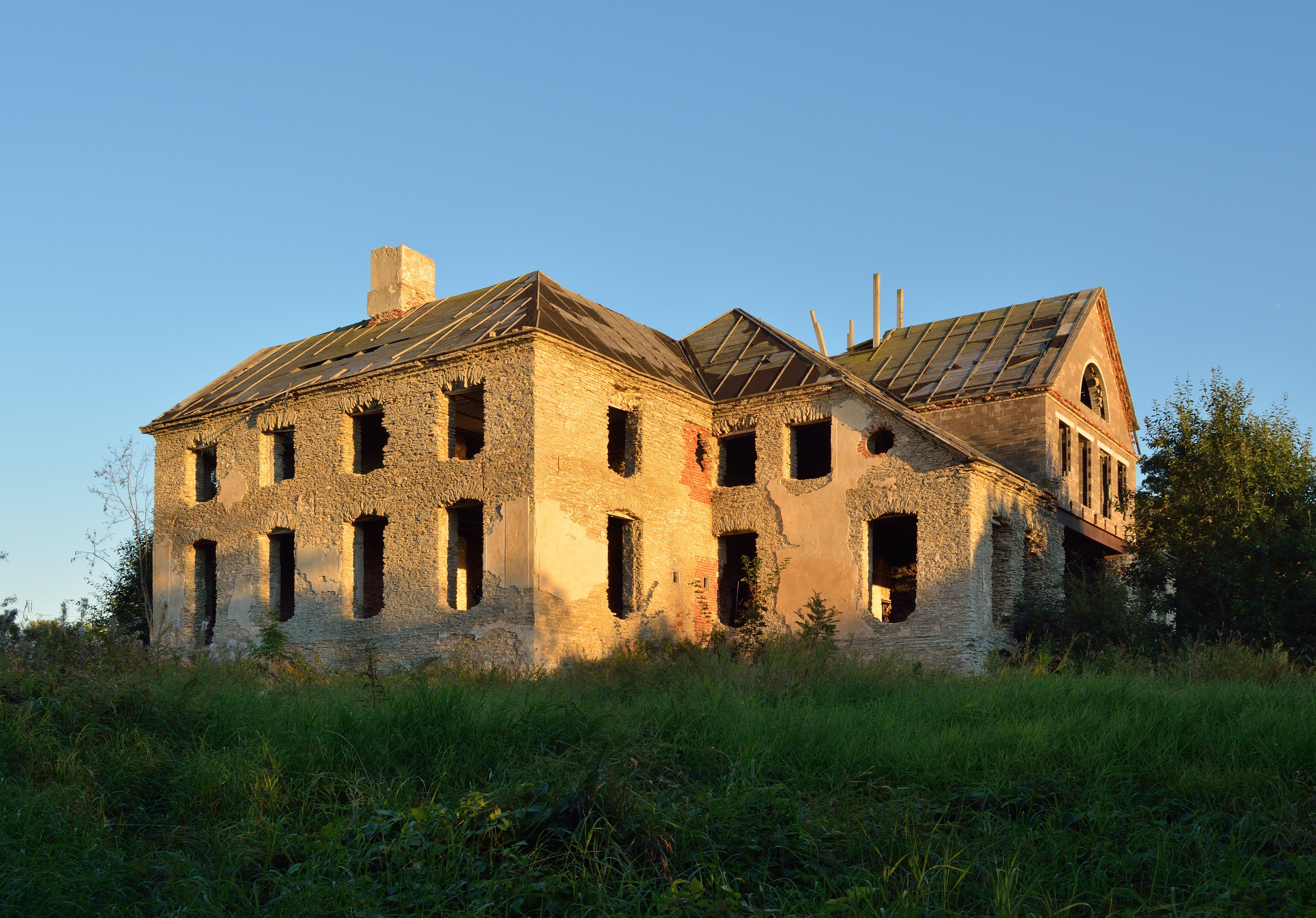 Ruins of Klooga manor main building